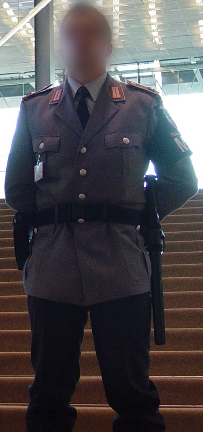 German Military Police